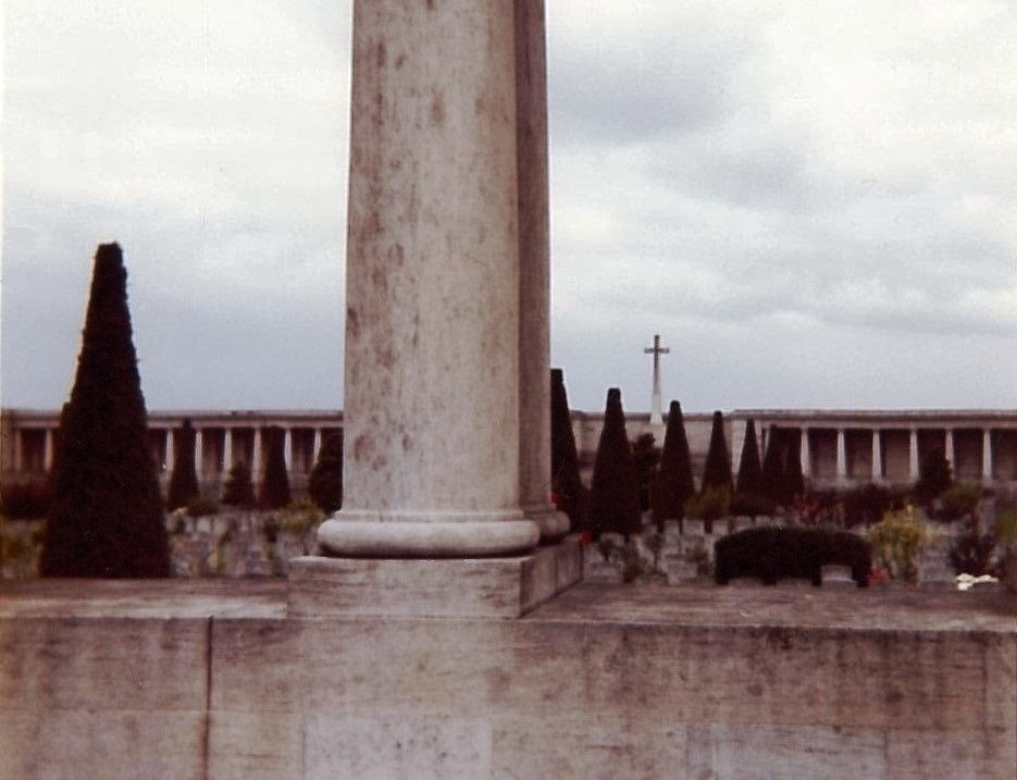 Pozières Memorial to the missing of the British Fifth and Fourth Armies, and associated Commonwealth War Graves Commission cemetery: view looking north-west, with the Cross of Sacrifice in the background